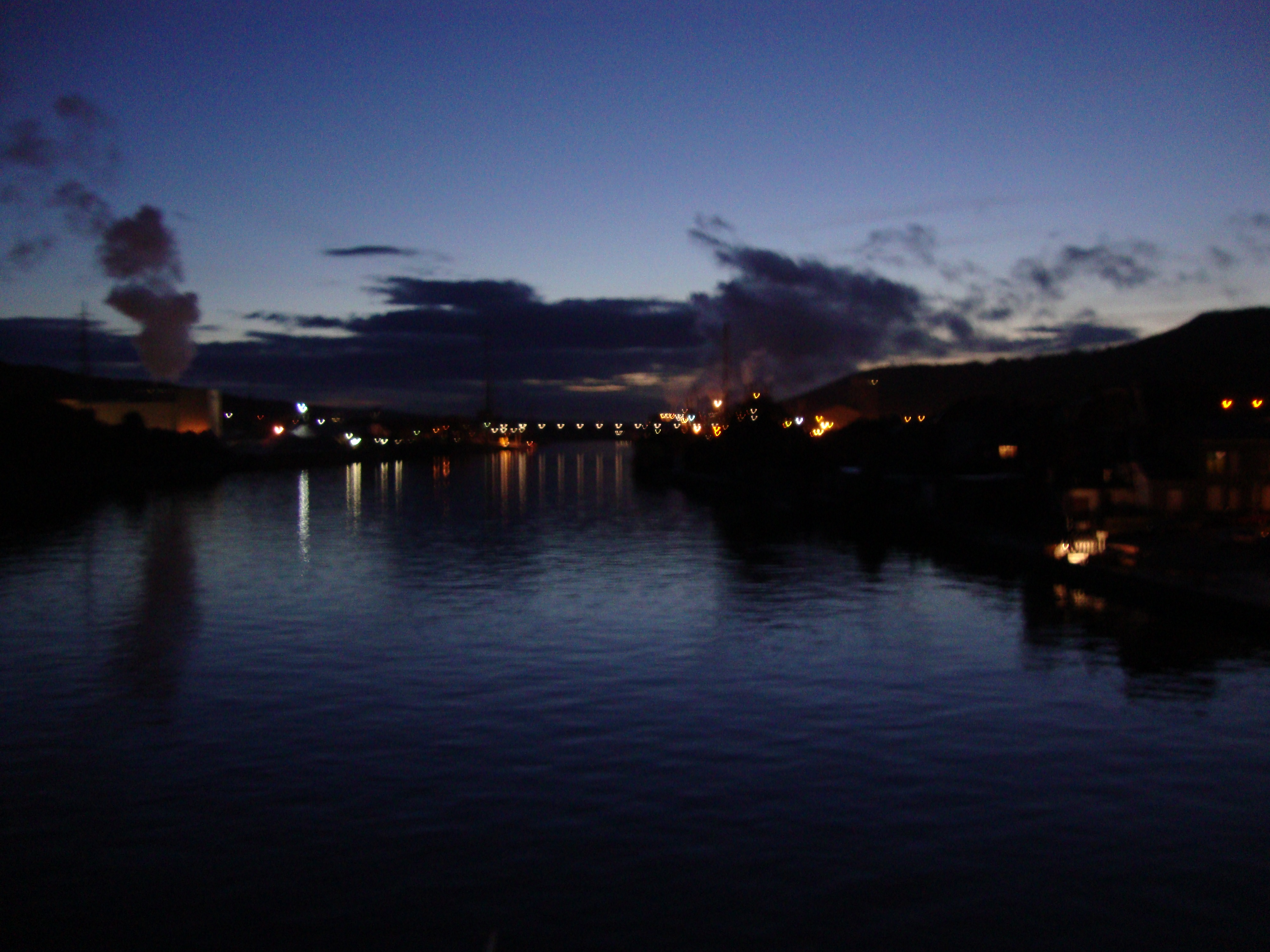 Meuse (river)